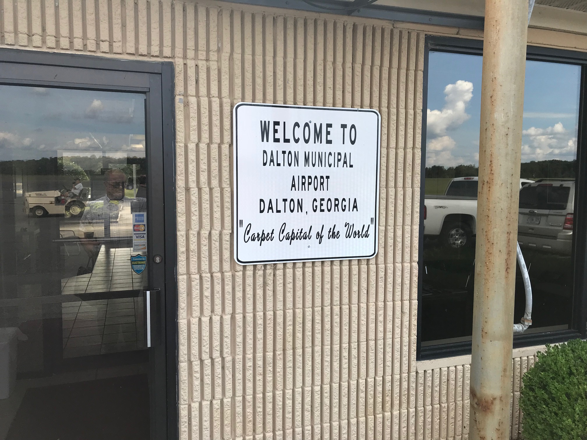 Dalton Municipal Airport taken from the tarmac